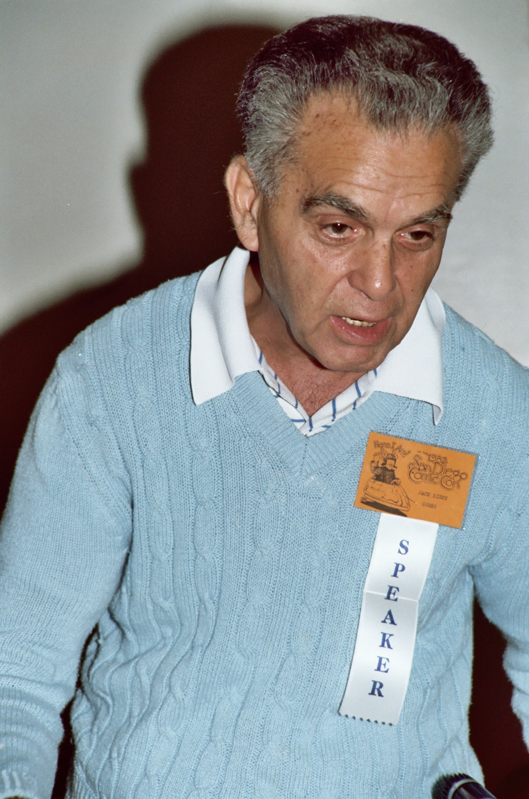 Comic book artist Jack Kirby at the 1982 San Diego Comic Con